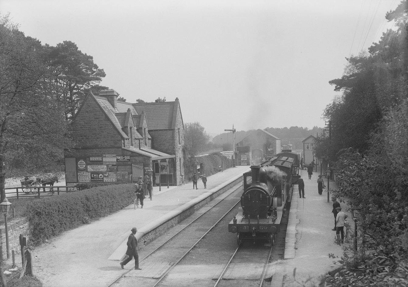 This is Abbeyleix Train Station, Co. Laois. The train is pulled by Engine No. 60. There's a fine array of advertising signs and posters on the gable wall, and dotted about the station, including what looks like an excellent railway travel poster, but unfortunately I can't make that one out. However, here's a list of the products and services being advertised: Power's world-famed tested seeds, Waterford The Monster House, Kilkenny - The cheapest house in Ireland for tweeds, serges & suitings. Write for patterns. Parcels carriage paid. Richard Duggan. Bovril [...] The largest furnishing house in Ireland. Exchequer St. Dublin Graves & Co. Ltd., Waterford and of New Ross. Timber, slates, cement & c. Steam saw mills. Butter box manufacturers Tylers Boots are the best Emu brand Australian Wines Patersons "camp" coffee is the best Good morning. Have you used Pears' soap Ask for Colman's Mustard Keating's powder kills McCullagh's Coals, Waterford Veno's Cough Cure Date: Circa 1910 NLI Ref.: Eas 2654